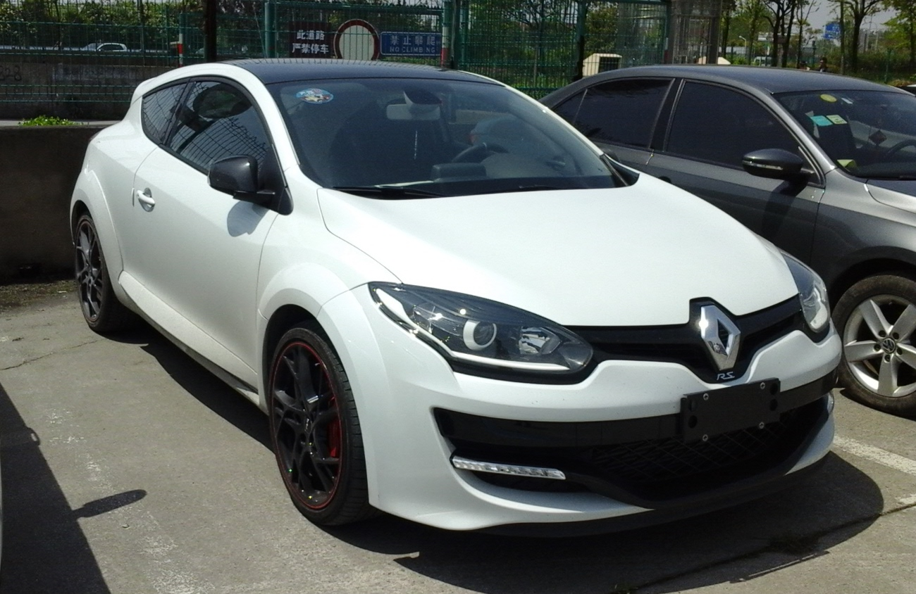 Renault Mégane III RS facelift photographed in Shanghai, China.